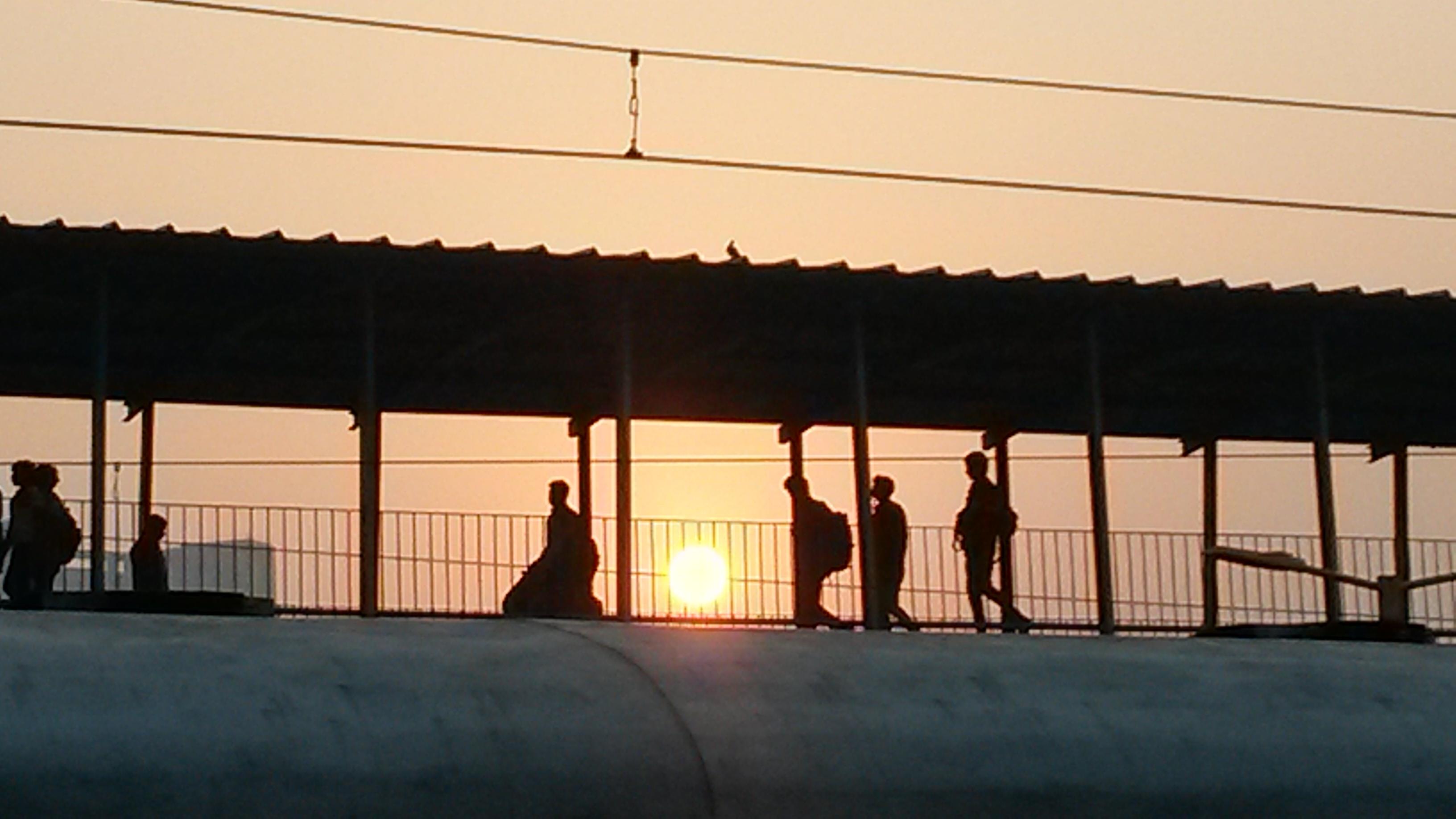 beautiful sunrise